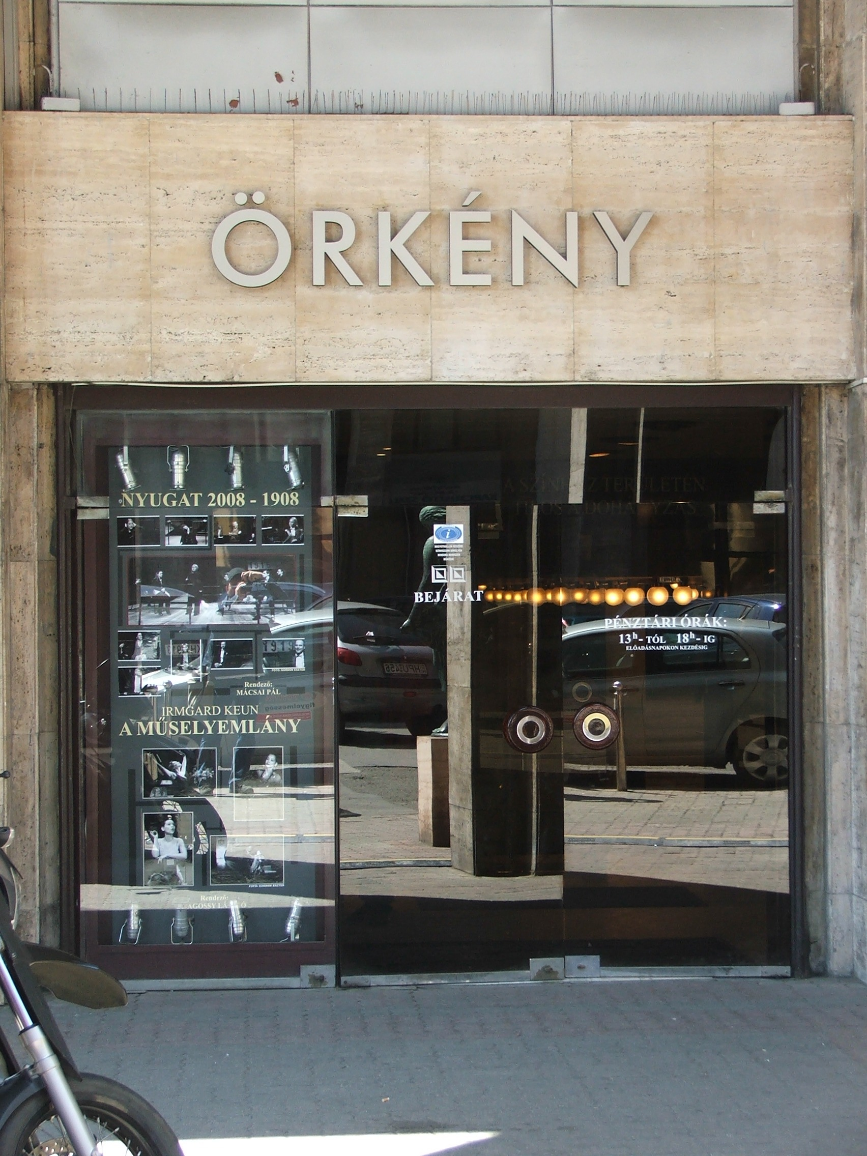 Entrance into the Istán Örkeny Theatre in Budapest